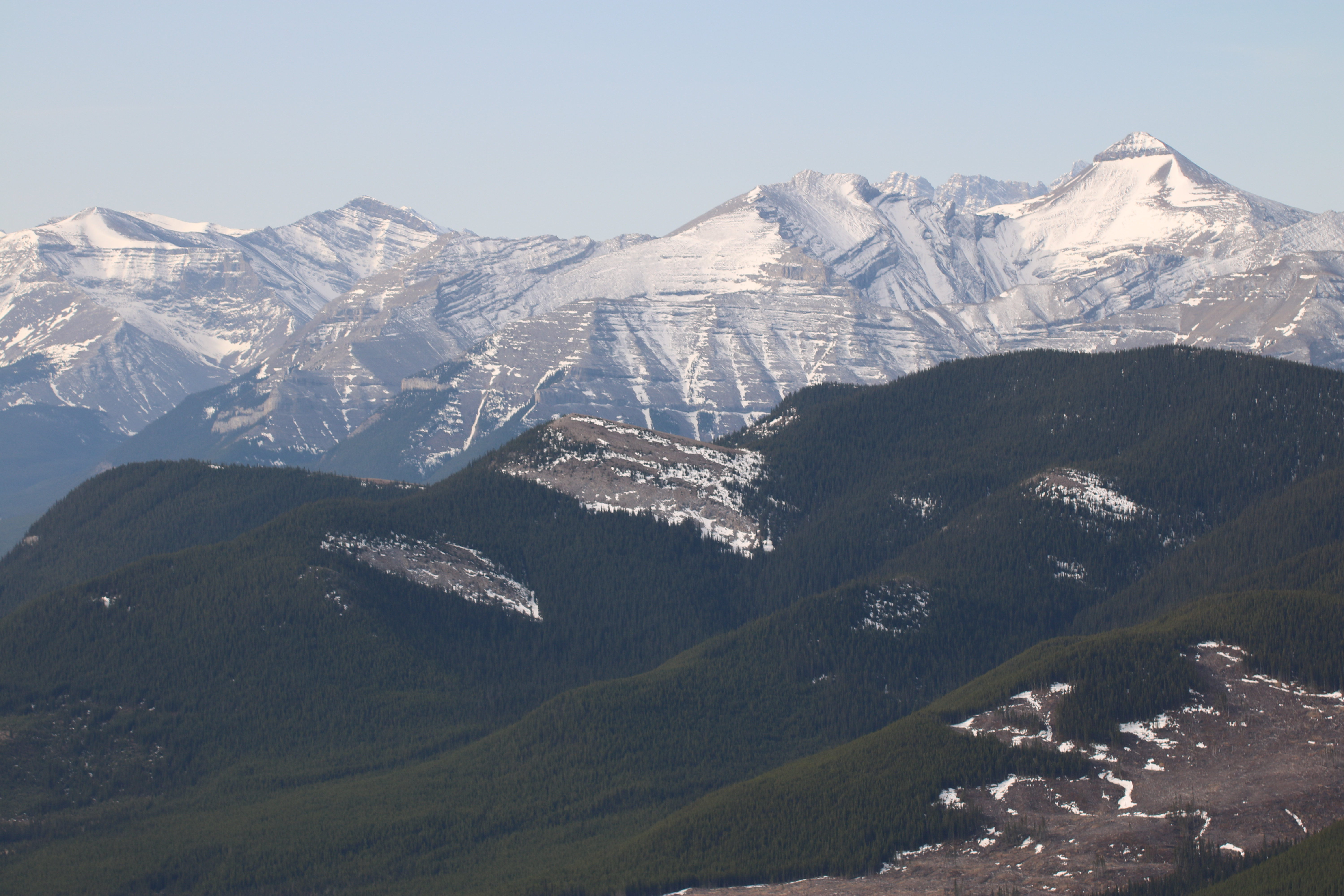 A view of the surrounding mountains from Prairie Mountain before my trip back down the mountain